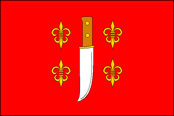 Municipal flag of Milovice village, Břeclav District, Czech Republic.